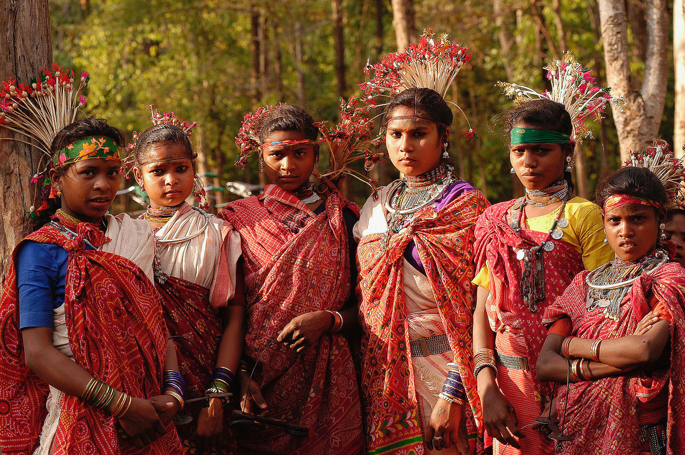 Young Baiga women (Adivasi tribe), India.